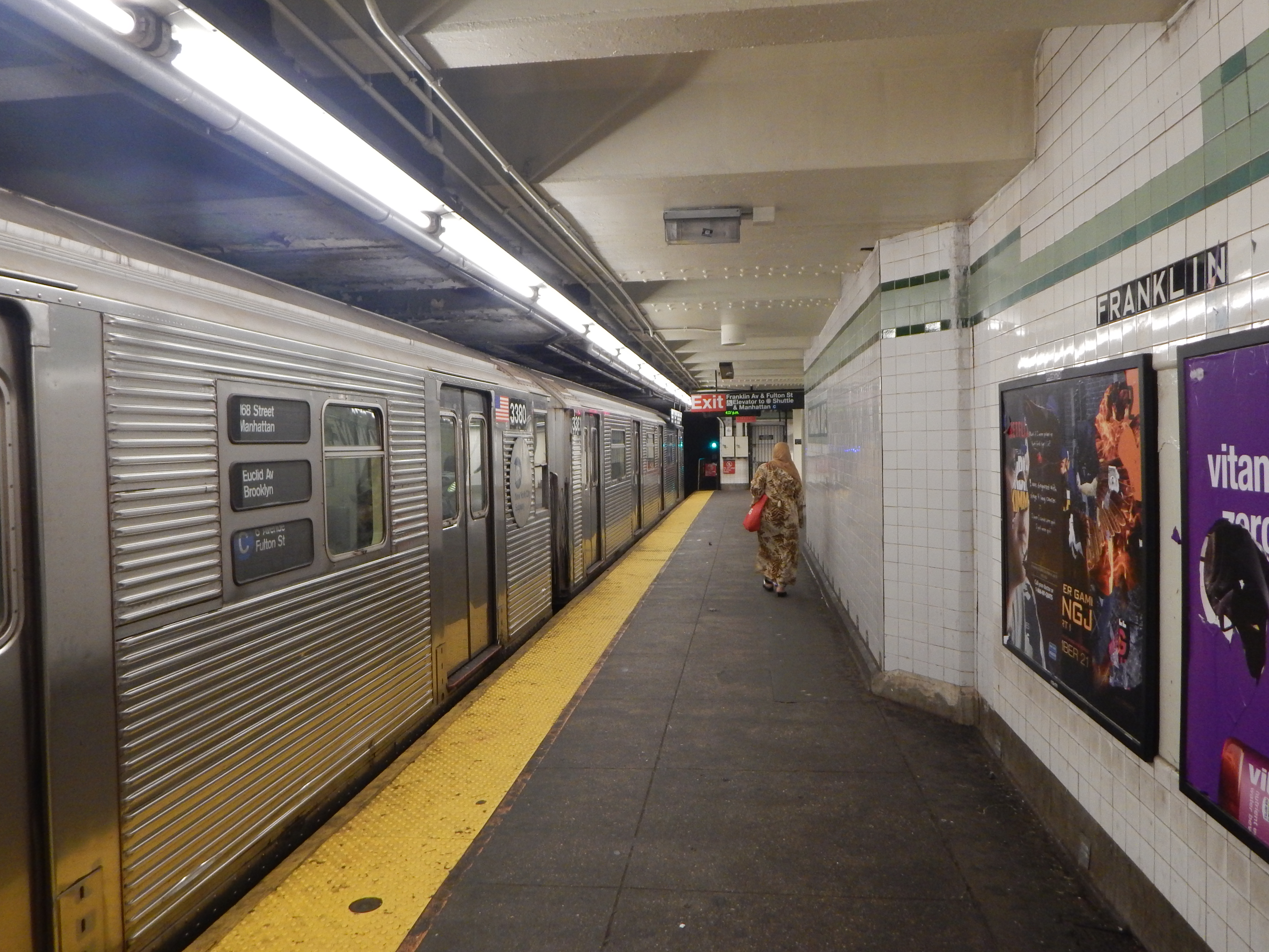 Bedford-Stuyvesant, Brooklyn, New York